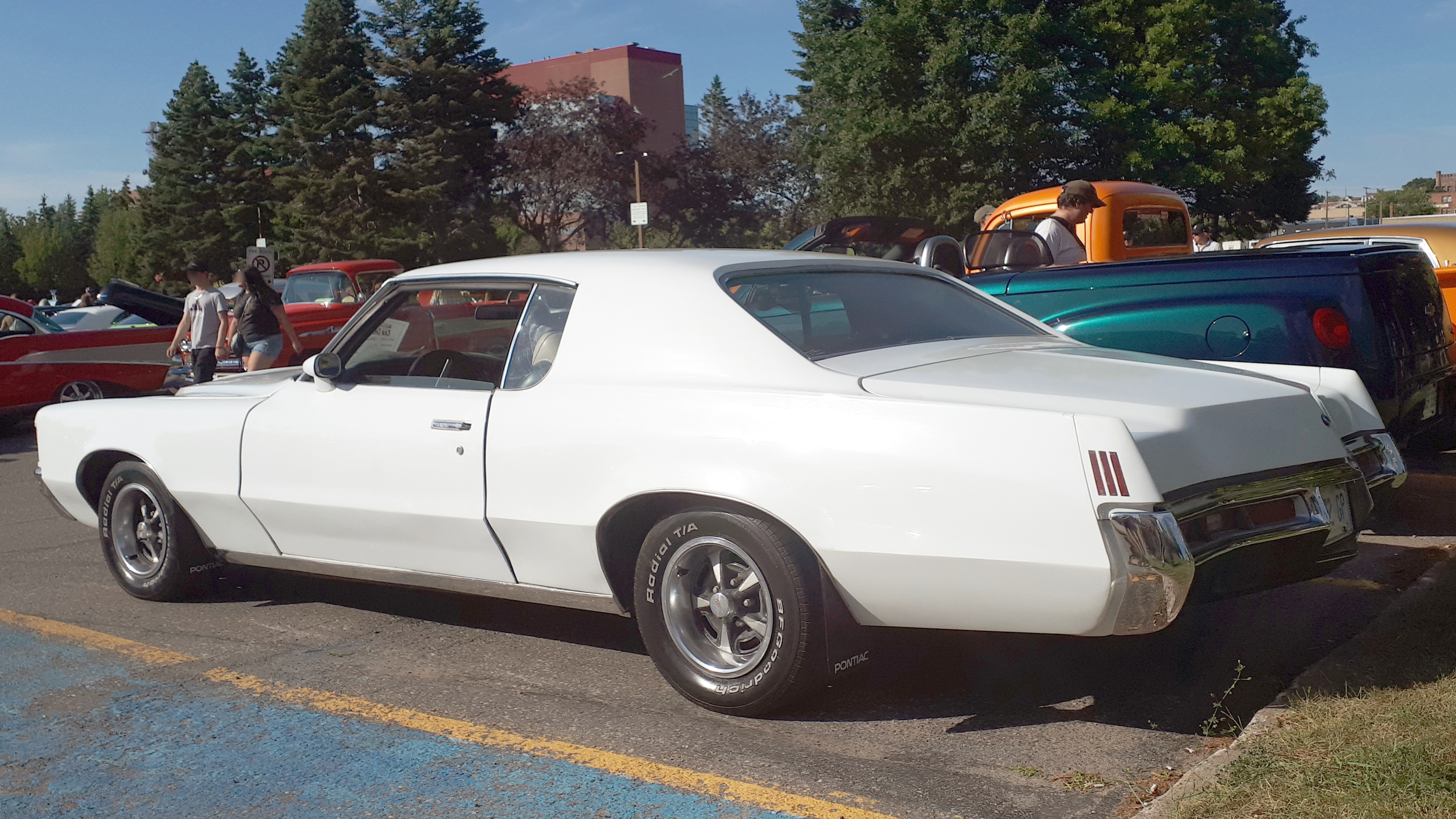 1972 Pontiac Grand Prix photographed in Sault Ste. Marie, Ontario, Canada